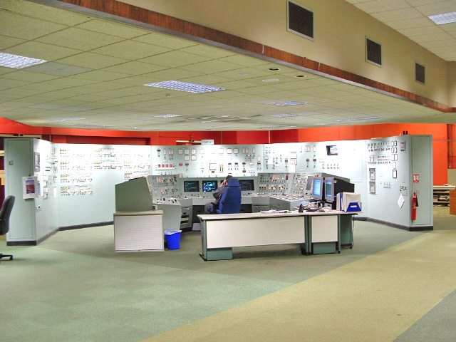 Drax Power Station Control Room, Unit Control Panel